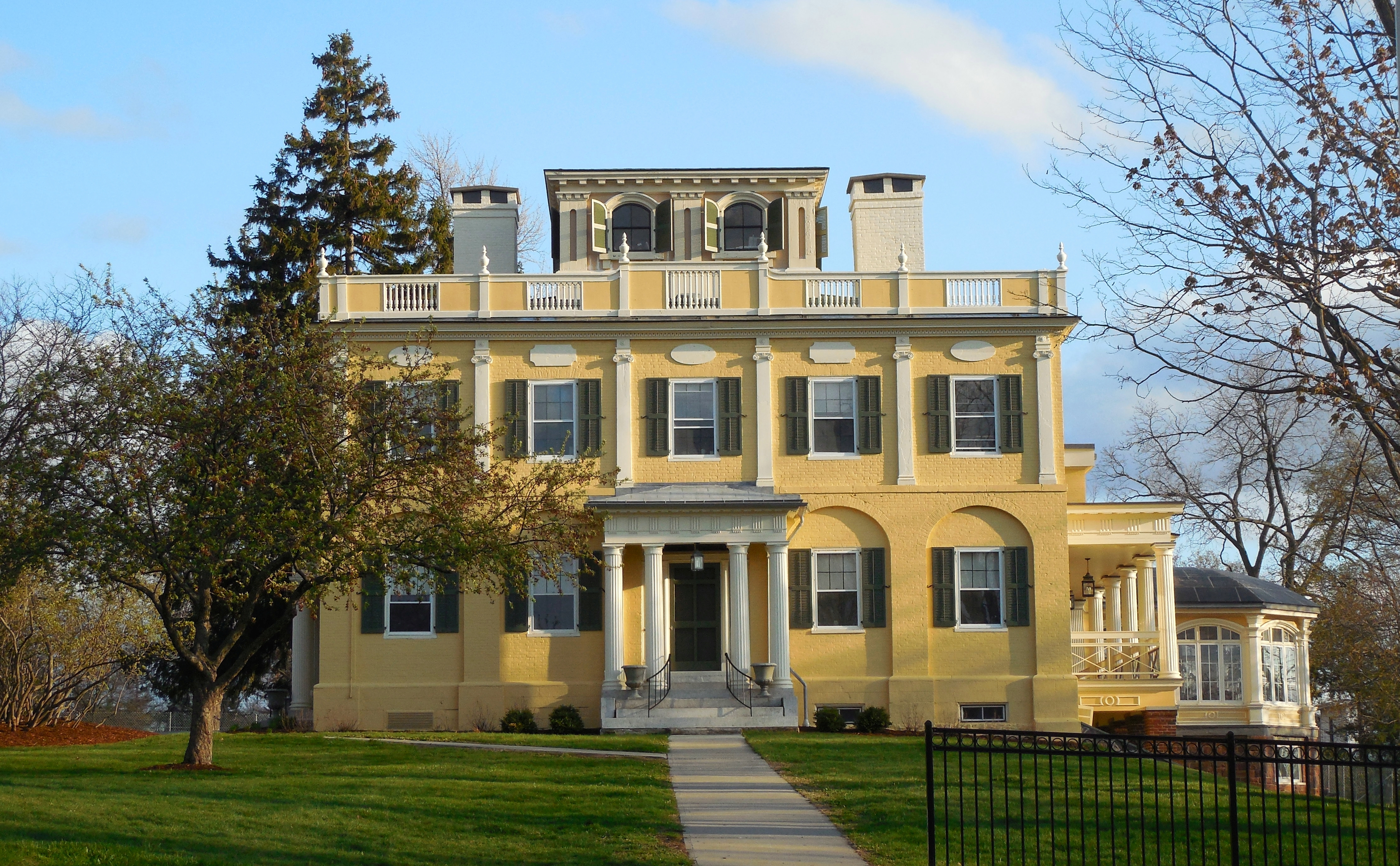 Front view of Grasse Mount (looking south) at the University of Vermont from Main Street in Burlington, Vermont, US on 8 May 2016. Grasse Mount was added to National Register of Historic Places on April 11, 1973.